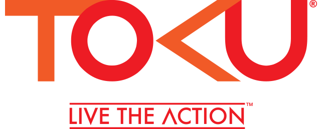 The logo for TOKU, a rebrand of Olympusat's Funimation Channel